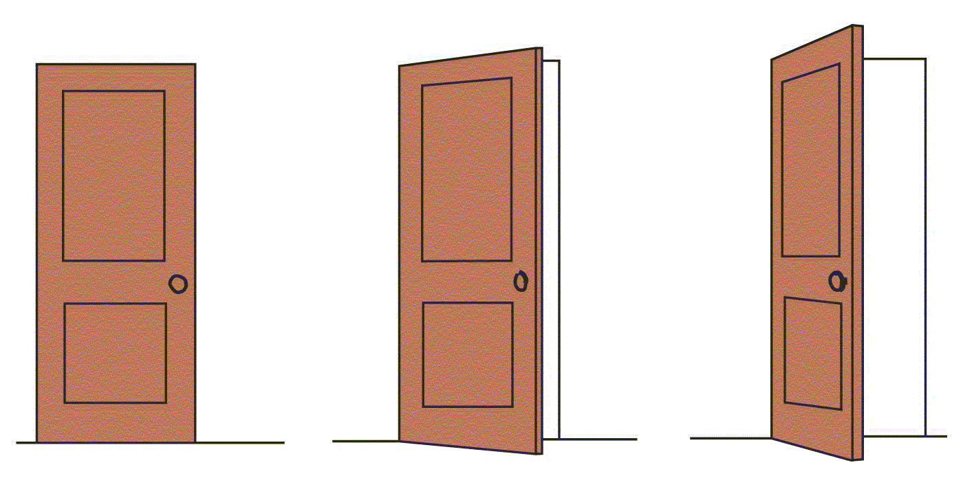 An image providing an example of shape constancy.